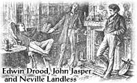 Edwin Drood, John Jasper and Nevile Landless dans The Mystery of Edwin Drood, by Sir Luke Fildes